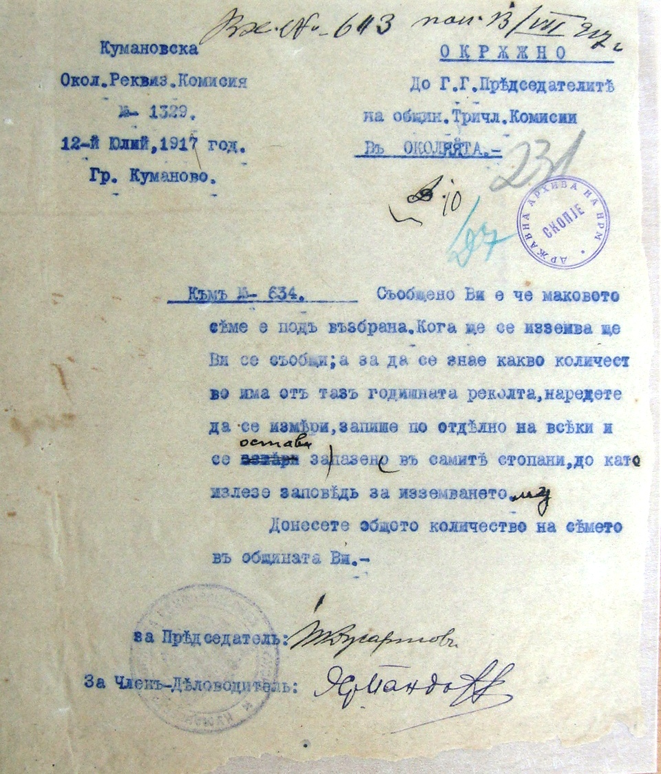 Prohibition of planting poppy. (Kumanovo, July 12, 1917) This media file is produced by Wikipedian in Residence in Category:Wikipedian in Residence at DARM in 2016.